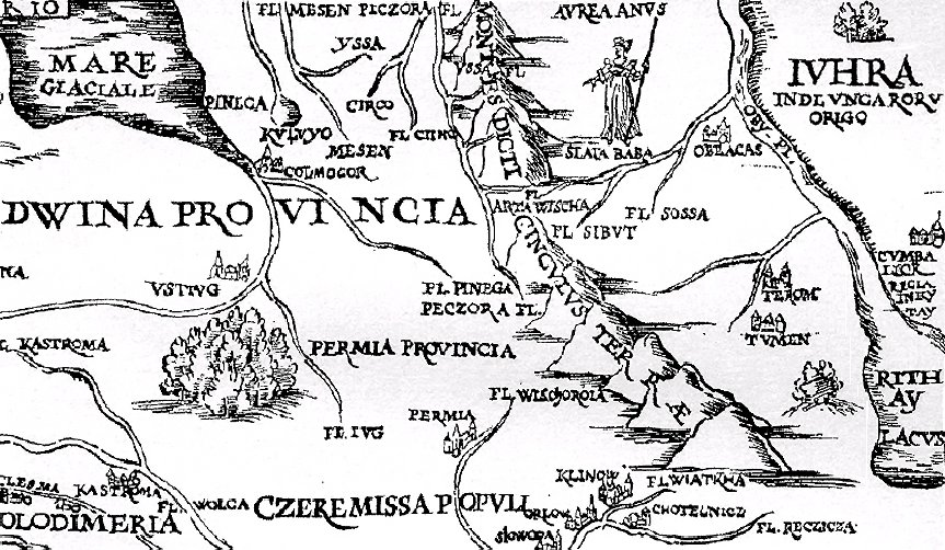 A map of Russia (Moscovia) published by Sigismund von Herberstein in 1549. Fragment: NE corner